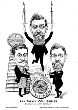 Caricature of the Coulembier Brothers, directors of the House of Moynat